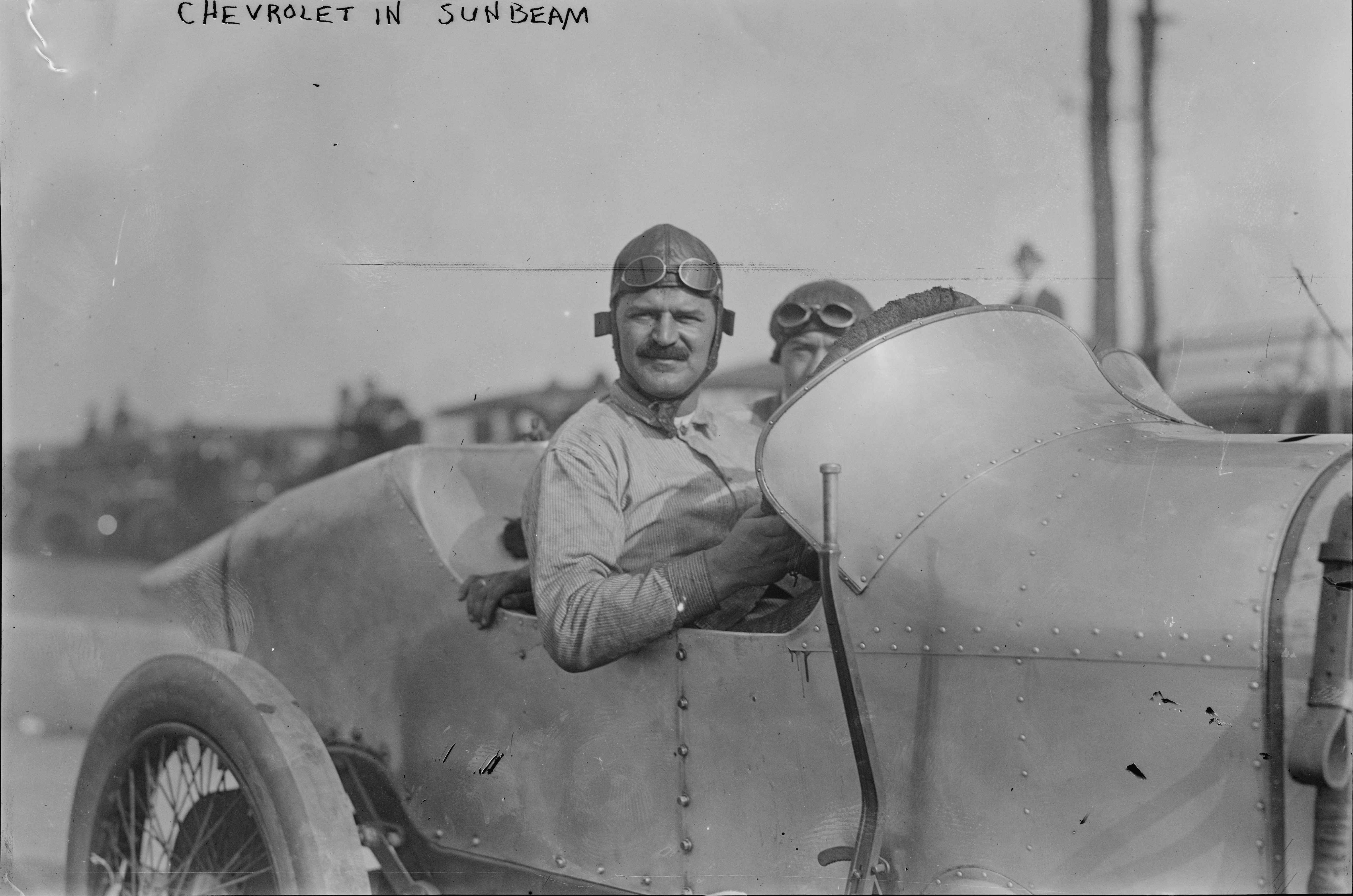 Chevrolet in Sunbeam.